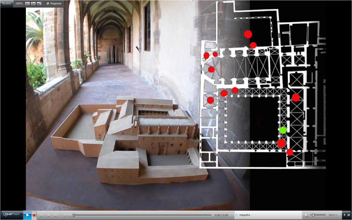 Turning model of the Convent